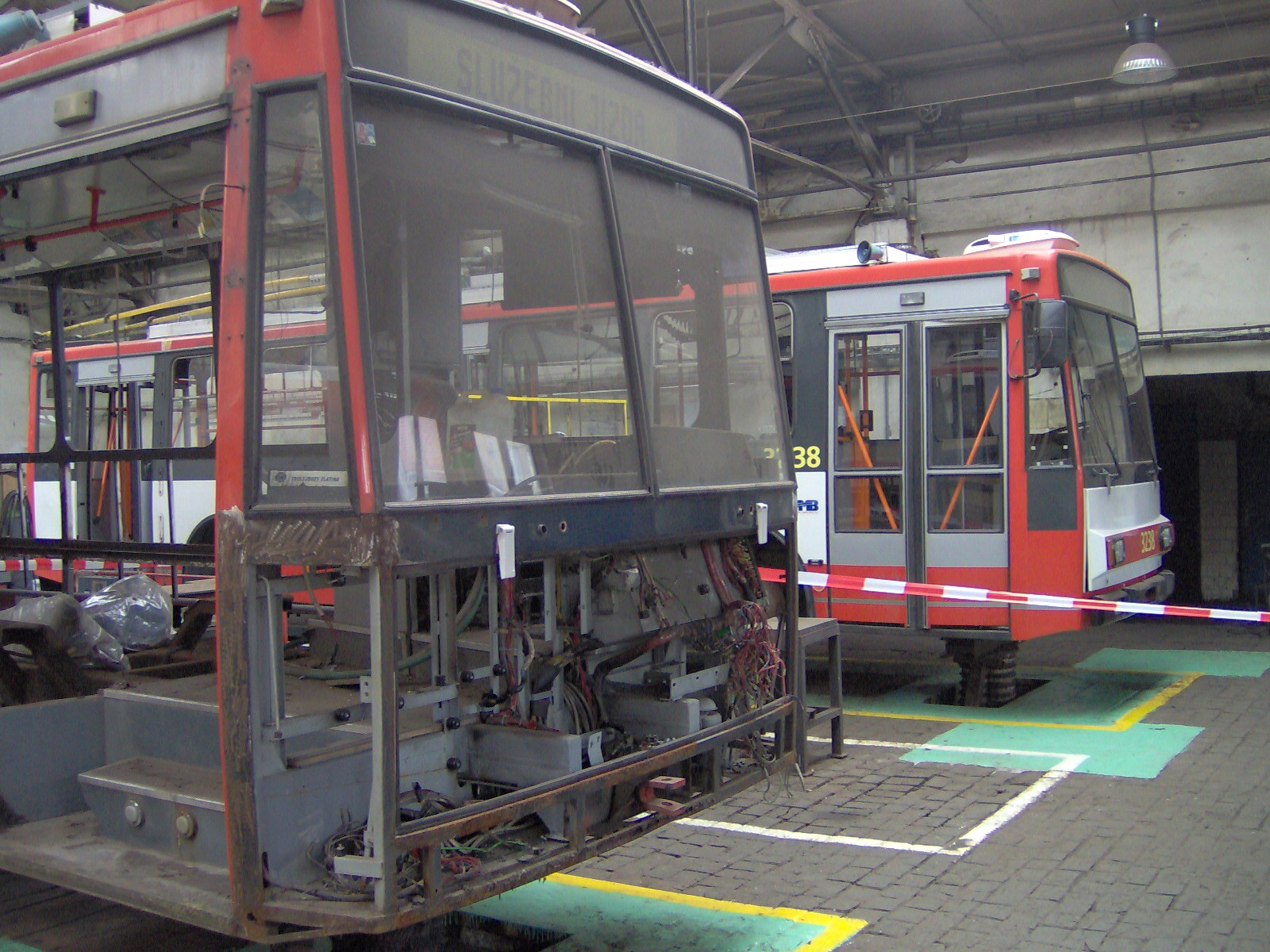 Husovice depot, 140 years of public transport in Brno, Czech Republic